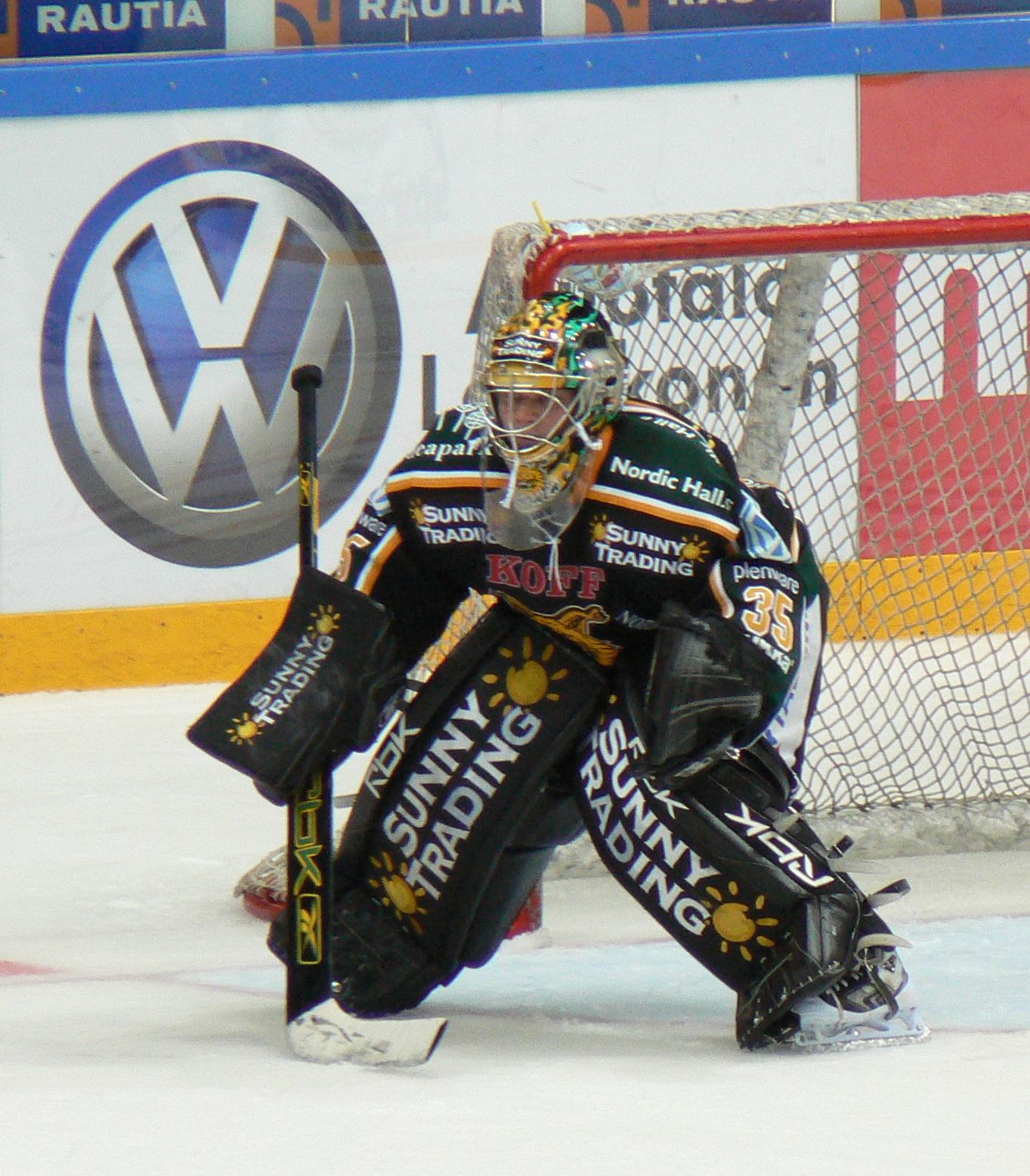 Finnish ice hockey goaltender Tero Leinonen playing for Ilves Tampere in September 2007.